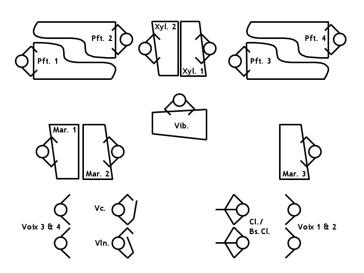 Description of how to place on stage the different instruments of Music for 18 Musicians according to Steve Reich, the composer.